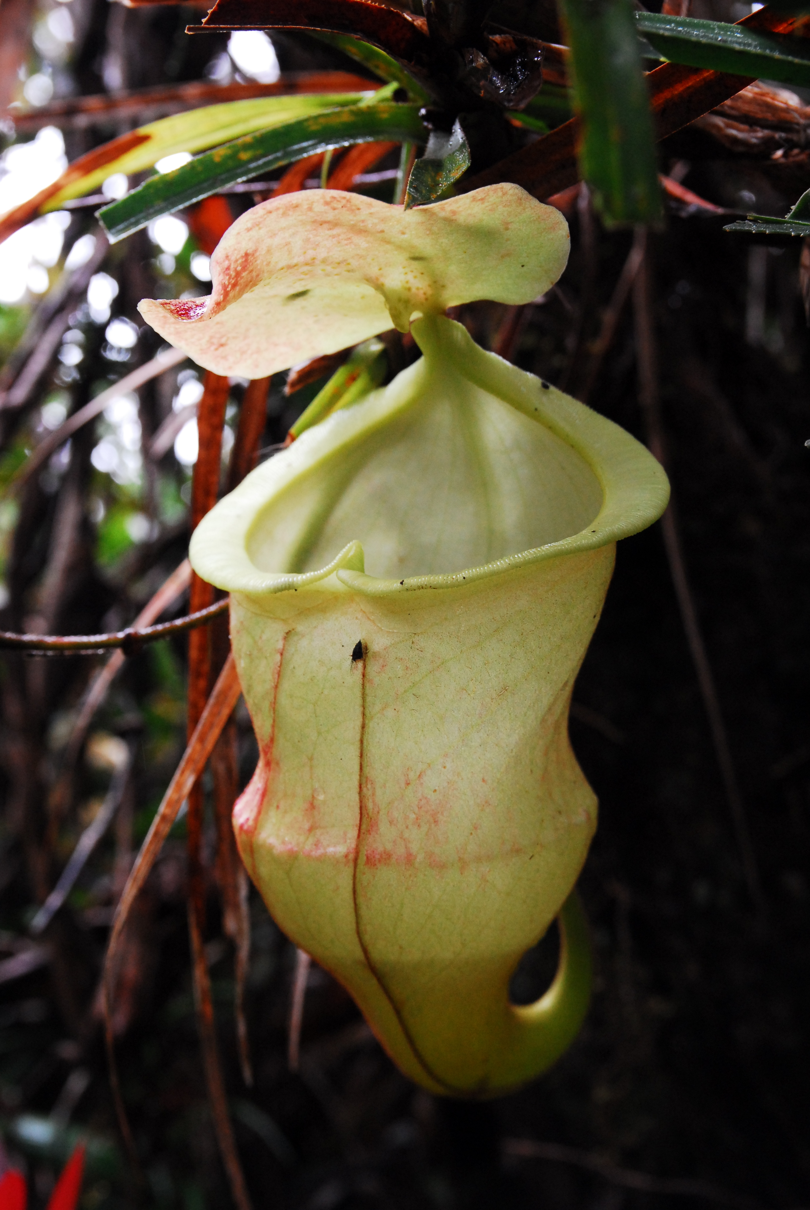 Nepenthes hamiguitanensis upper pitcher from Mount Hamiguitan, Mindanao, Philippines